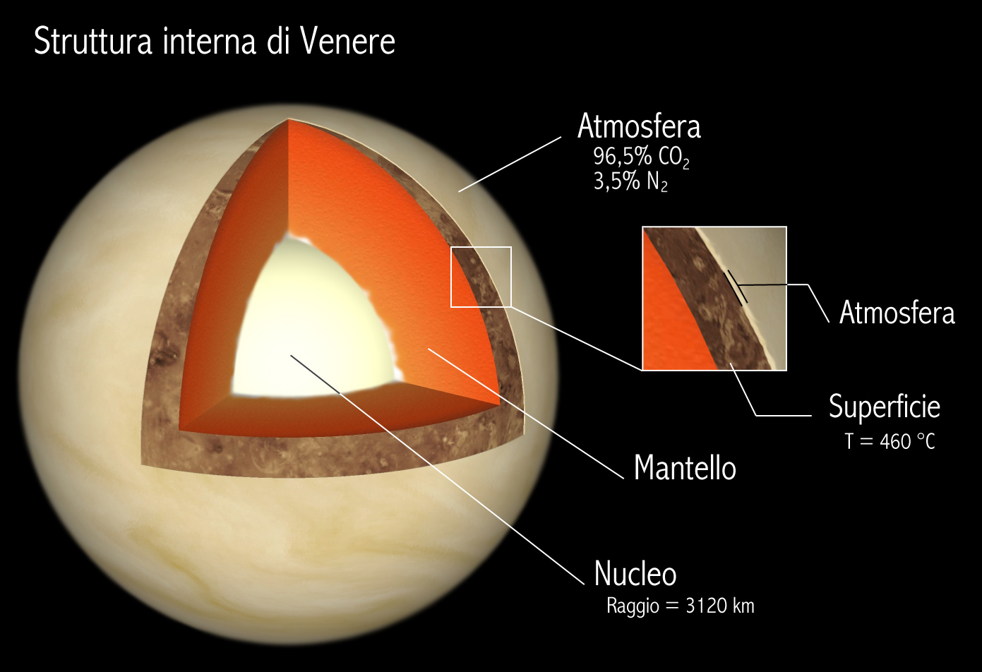 Interior of Venus.